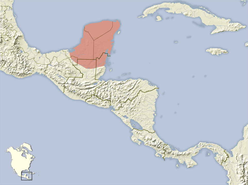 Distribution map of Gaumer's spiny pocket mouse